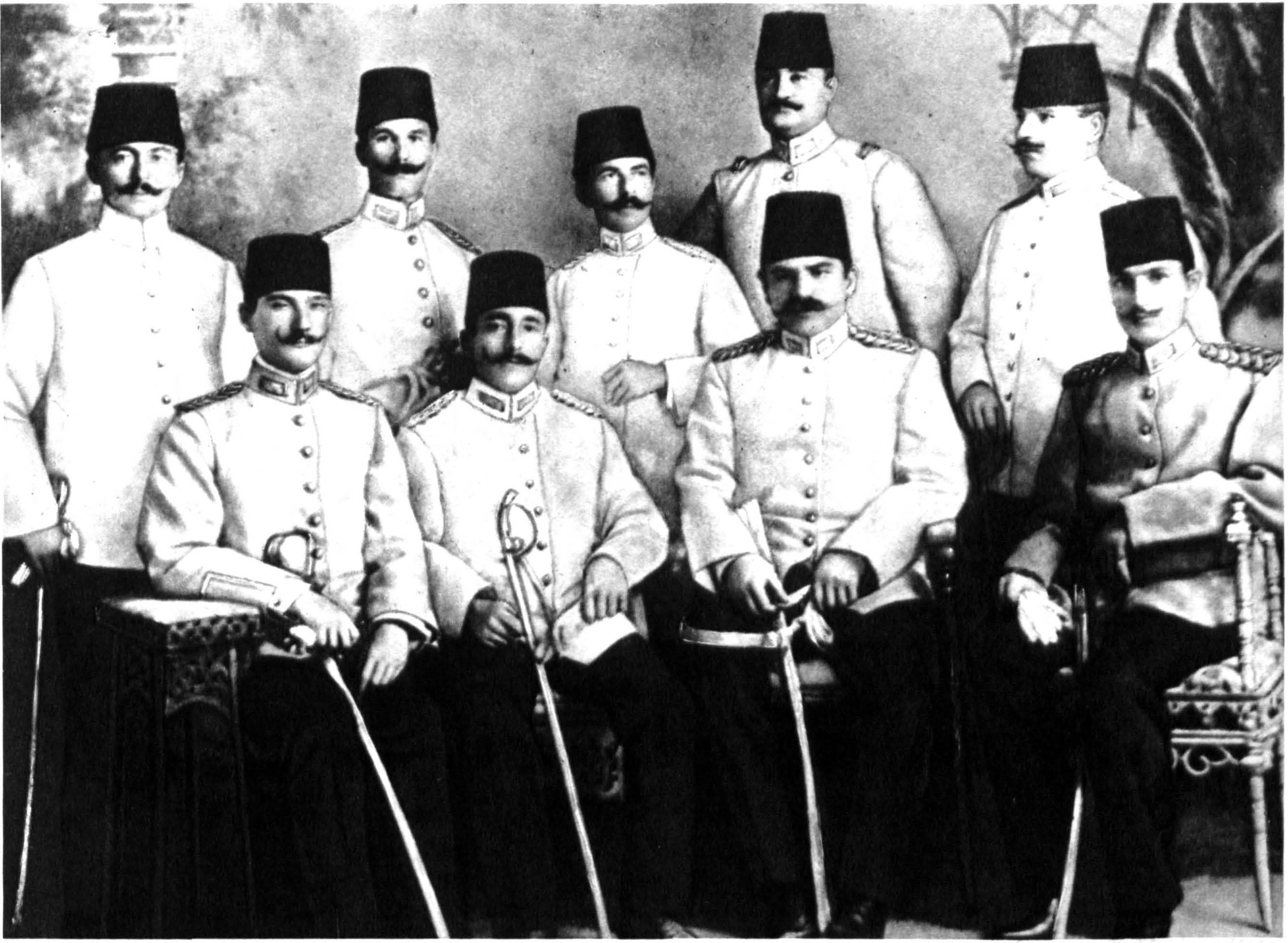 Ottomna officers of the Fifth Army at Beirut. From left to right; front row: Mustafa Kemal (Atatürk), Lüfti Müfit (Özdeş), Fuat Ziya (Çiğiltepe), Muhittin (Kurtiş), back row: Halil, Hayri, Süleyman Şevket, Brigadier Mohammed Fayek, Ali Fuat (Cebesoy), July 15, 1907.